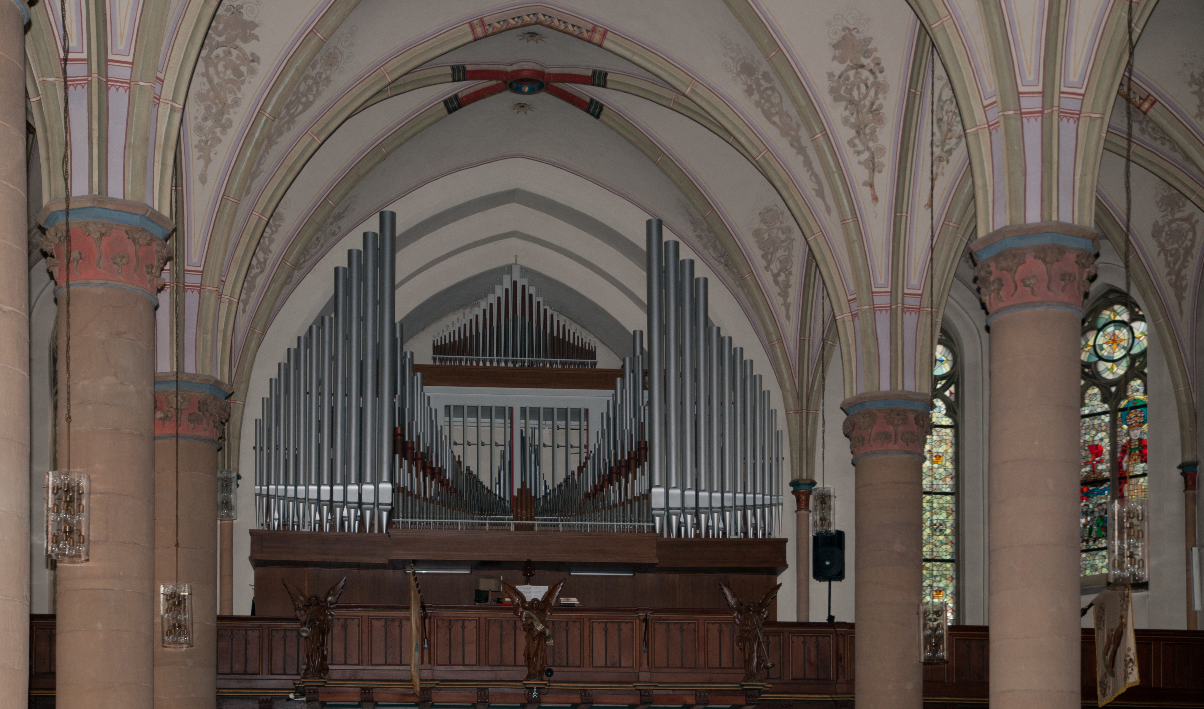 Hüsten - Church St. Petri, Organ